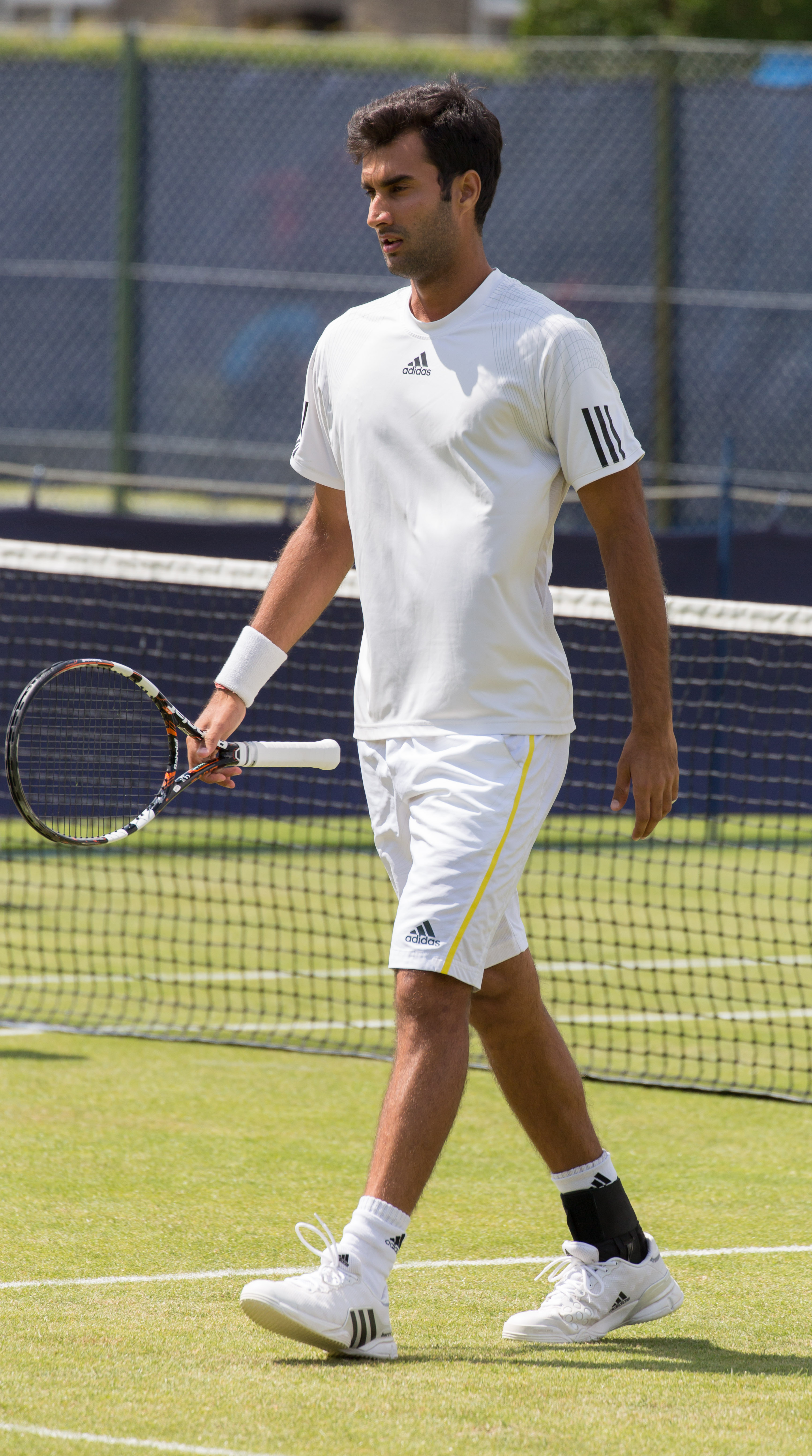 Yuki Bhambri of India playing doubles with Divij Sharan at the Aegon Surbiton Trophy in Surbiton, London.